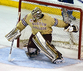 UMass Lowell 2, Boston College 2 (OT)